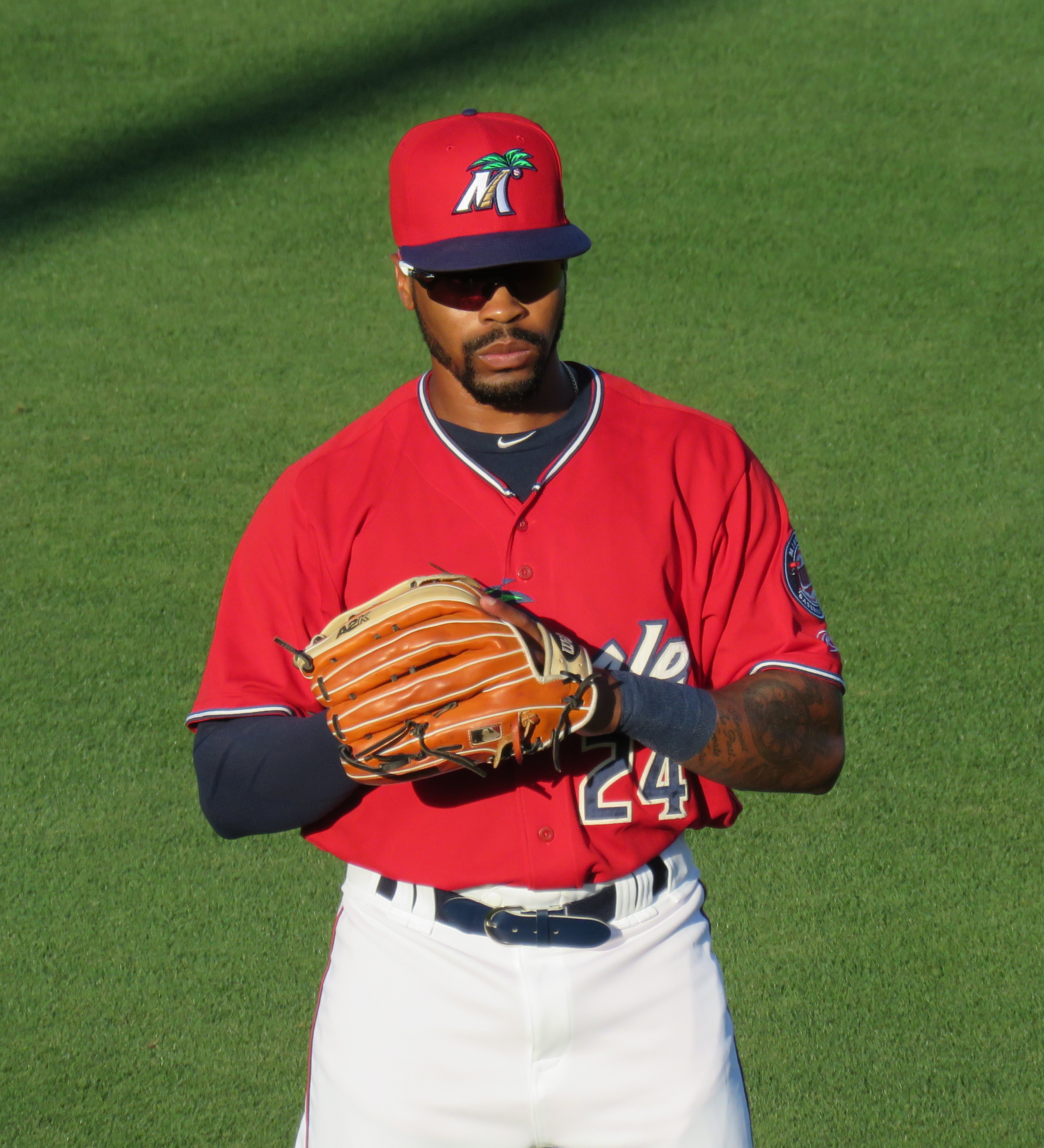 Davis in the outfield